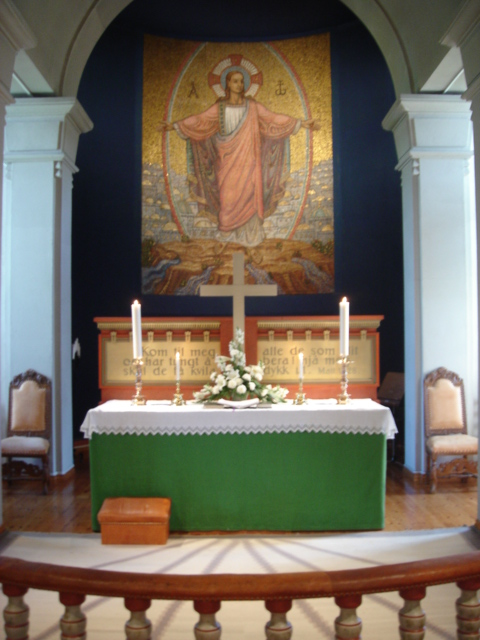 The altar in Stord Church, Leirvik in Hordaland, Norway